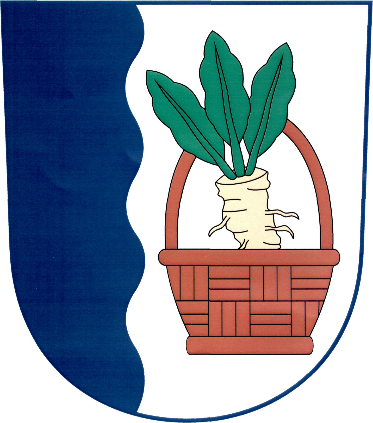 Coat of amrs of Křenek , District Prague East, Czech Republic